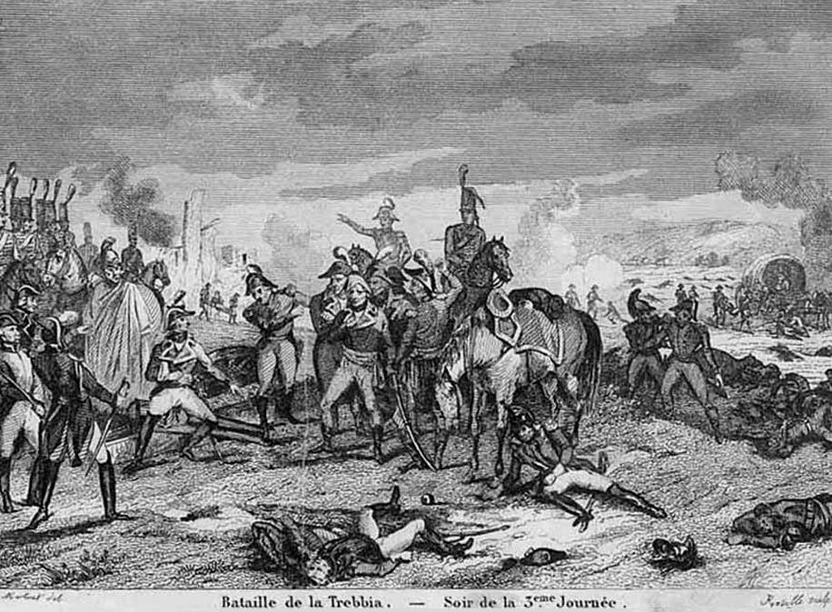 Battle of Trebbia (1799), Italy. Scene at an Evening of the 3rd Day of the Battle of Trebbia, 1799. From the Series: "France Militaire."